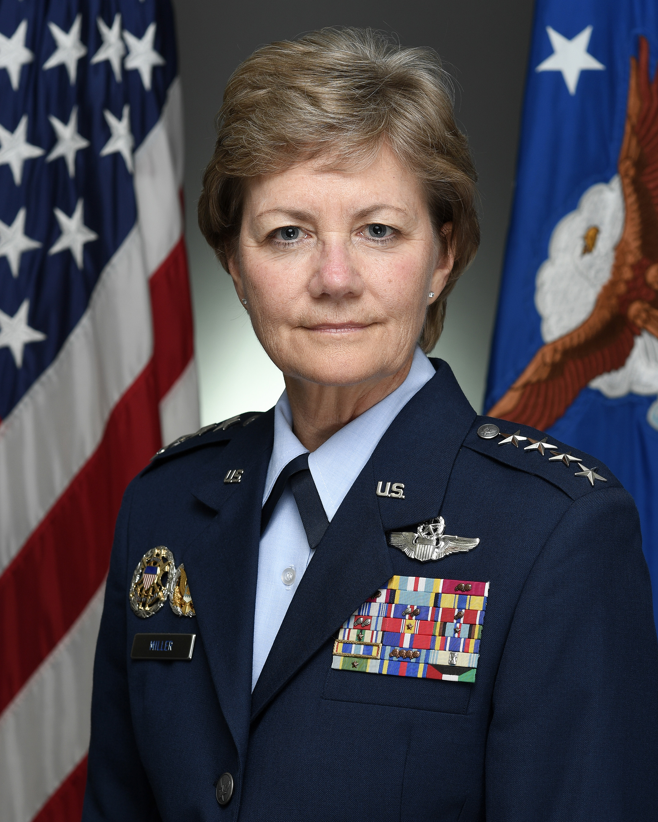 General Maryanne Miller, USAFCommander, Air Mobility Command